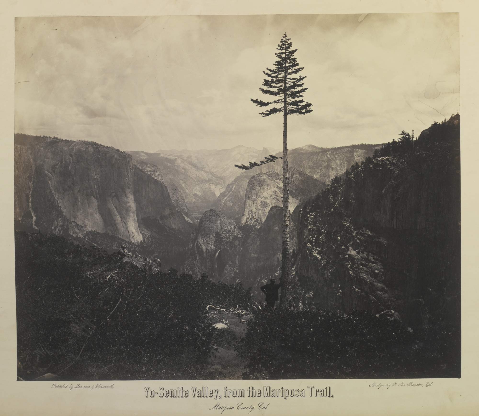 One of 30 mammoth-plate albumen prints of Yosemite Valley, Mariposa County, and the Big Trees, Calaveras County, California taken in 1864 by Charles Leander Weed and published prior to 1867 by Lawrence & Houseworth. Weed is widely believed to have been the first photographer to work in Yosemite. For his 1864 photographic expedition to the Valley, Weed was equipped with a large camera and large glass plates, enabling him to produce these 22x28 inch mammoth-plate prints which won the first-place bronze medal at the 1867 Paris International Exhibition for their superior excellence. This complete collection sold at auction in 2012 for $374,500.